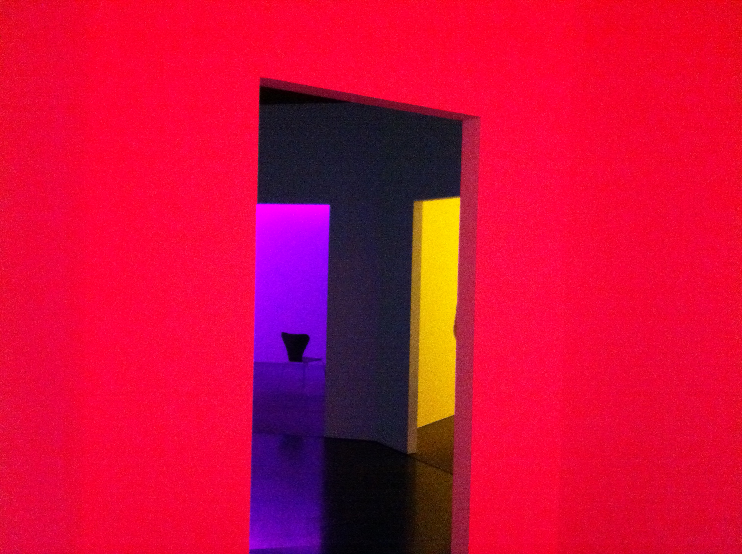 Between the Frames: The Forum, exhibit by Antoni Muntadas at MACBA Barcelona